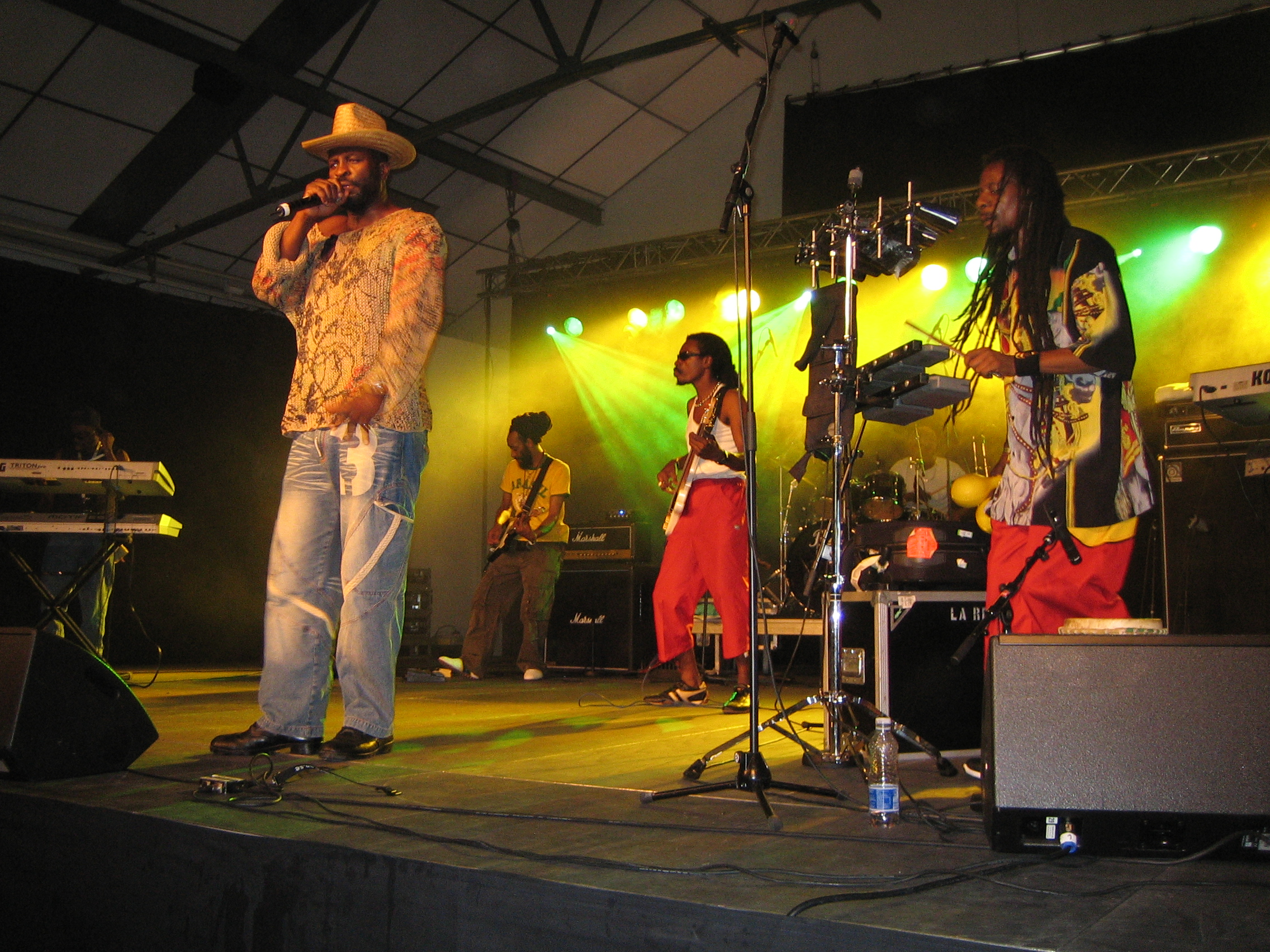 Reggae artist Eek-A-Mouse and band performing at Swea reggae festival 2006, Stockholm